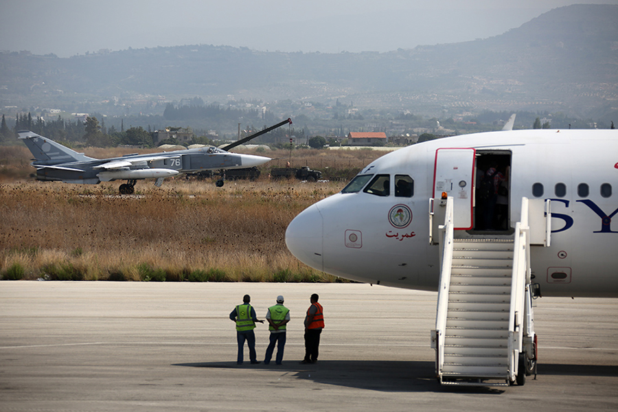 Russian Air Force Sukhoi Su-24 passes a Syrianair Airbus A320 at Latakia